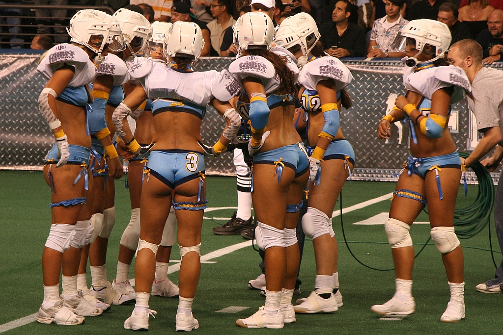 Members of the San Diego Seduction in a huddle